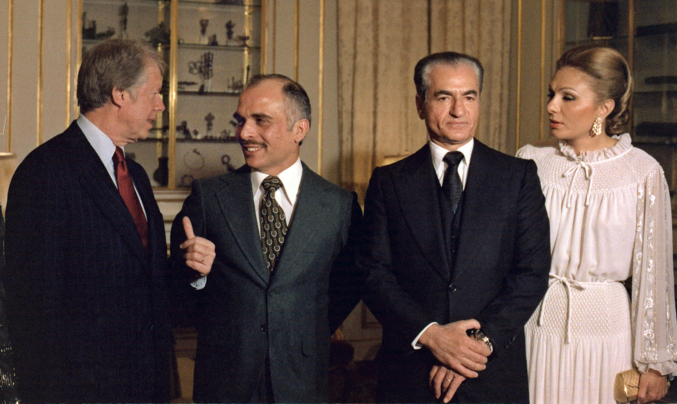 President Jimmy Carter with King Hussein of Jordan, the Shah of Iran, and Shahbanou Farah Pahlavi of Iran. Record group=Collection JC-WHSP: Carter White House Photographs Collection, 01/20/1977 - 01/22/1981 Record group ARC=1120